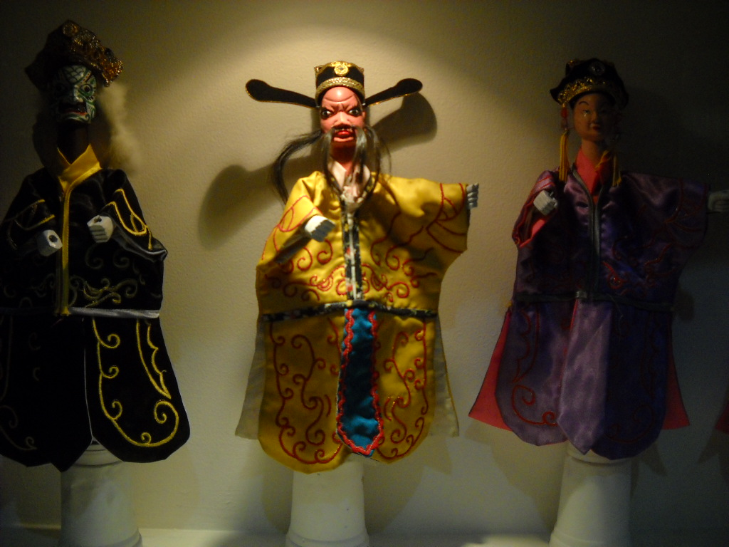 Wayang Potehi (Budaixi Puppet) in Wayang Museum, Jakarta